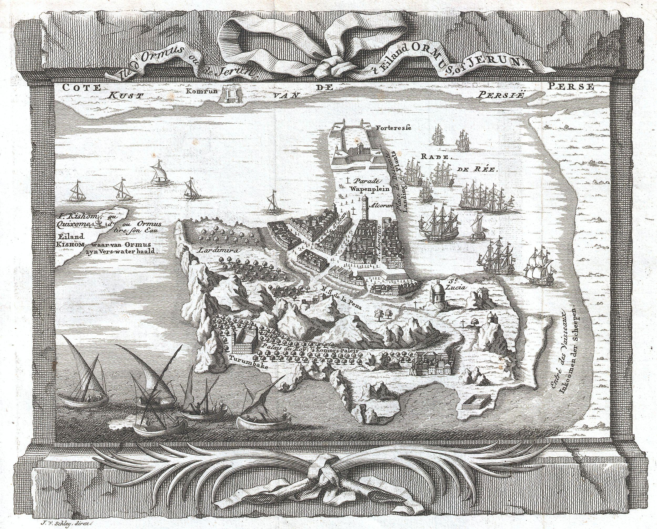 I travelled next from the land of 'Oman to the land of Hurmuz. Hurmuz is a city on the sea-coast, and is also called Mughistan. Opposite it in the sea is New Hurmuz, and between them is a sea passage of three farsakhs. We came to New Hurmuz, which is an island whose city is called Jarawn. -Ibn Batutta This is Schley's magnificent map of the island city of Hormuz. This strategically important Strait of Hormuz guards the entrance to the Persian Gulf. For centuries Hormuz had been an important stopping point in the shipping lanes from India to Arabia. In the course of its long history, Hormuz was, at various times, an independent state, part of the Arabia, part of Persia and subject to Portugal. Today it is part of Iran. Ormus is mentioned frequently in literature for its legendary wealth and beauty. It is named in the works of Milton, Coleridge, Mandeville, and Ibn Batutta, to name but a few. Our map shows the island and the nearby Persian coast. Offers stunning detail of the city of Jerun, including orchards, the Palace of the King, the church of St. Lucia, various streets, and the great Fortress. No less than 16 sailing ships ply the waters. Surrounded by a stupendous decorative border with an architectural motif. Engraved by Schley under the supervision of J. Bellin for issue as plate no. 31 in the c. 1750 edition of Provost's L`Histoire Generale des Voyages .